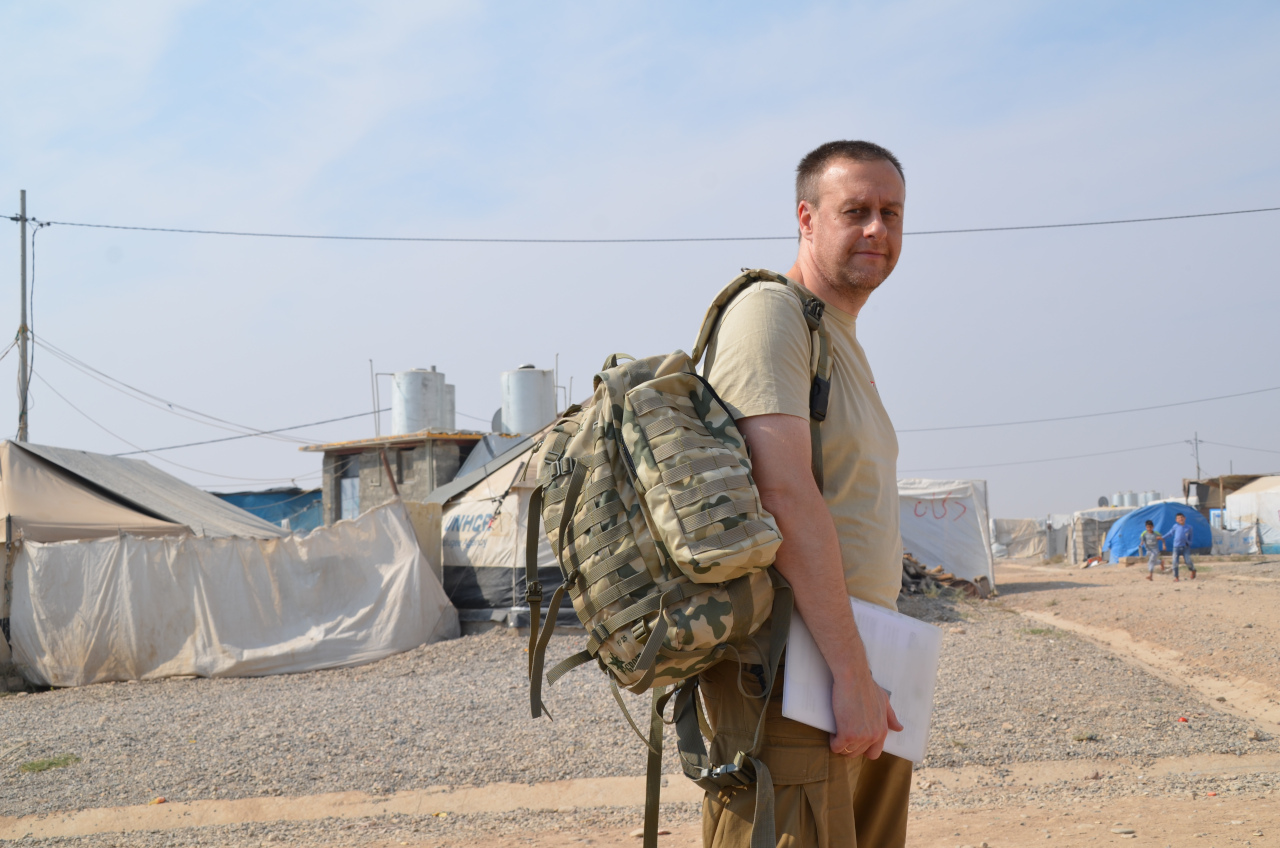 Bartosz Rutkowski - president and founder of Orla Straz - Eaglewatch Foundation